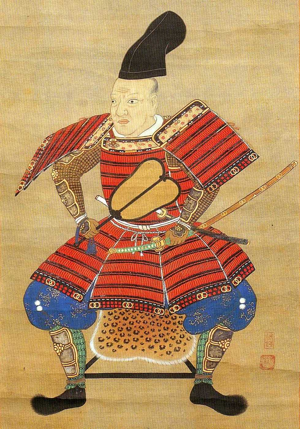 Wakisaka Yasumoto